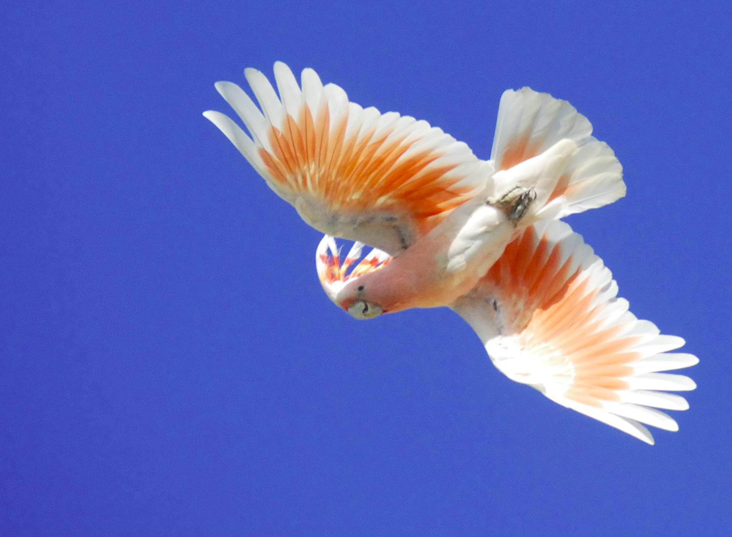 Major Mitchell's Cockatoo, also known as Leadbeater's Cockatoo or Pink Cockatoo flying at Australia Zoo, Queensland, Australia.